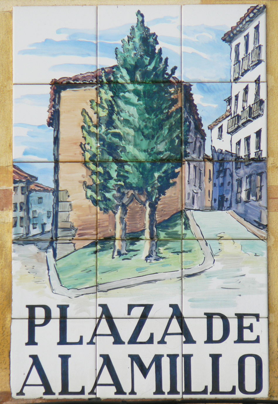 Sign of Plaza de Alamillo (square, Centro district) in Madrid (Spain).